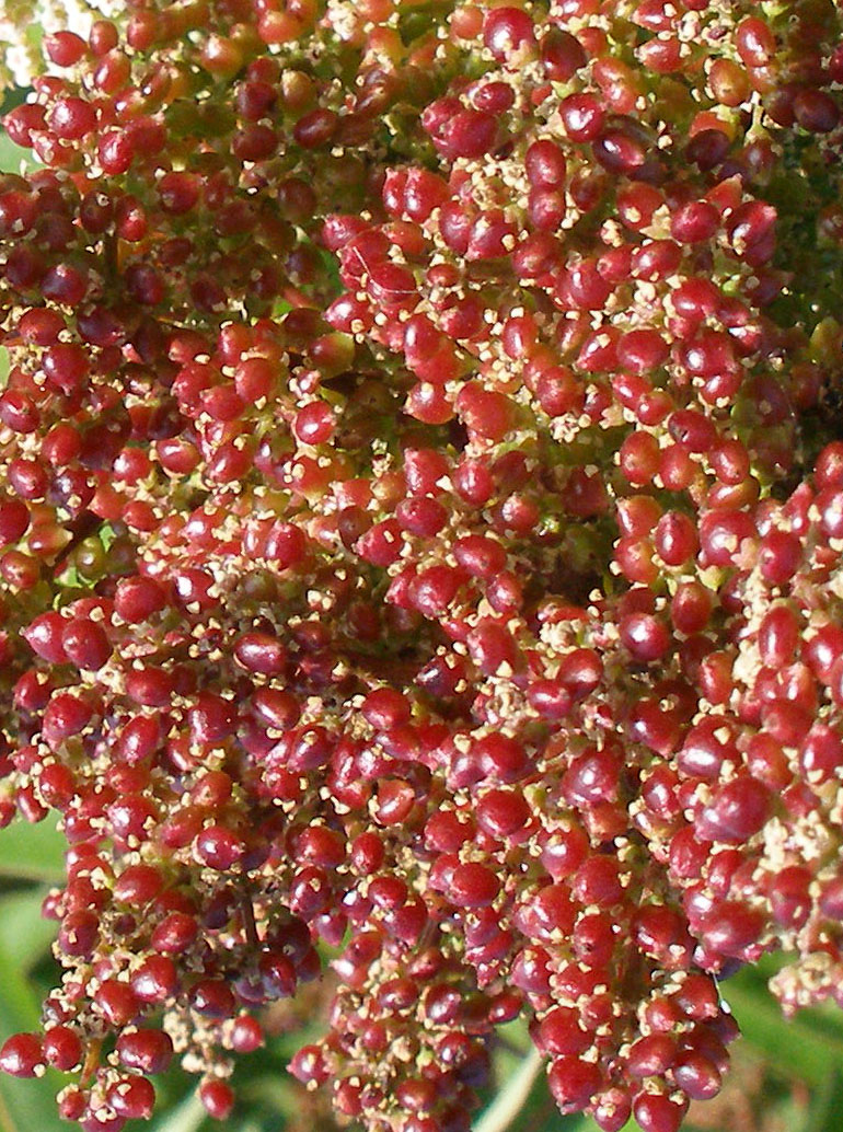 Malosma laurina — Laurel sumac, fruits. A plant native to California chaparral and woodlands habitats. Los Angeles County, California.